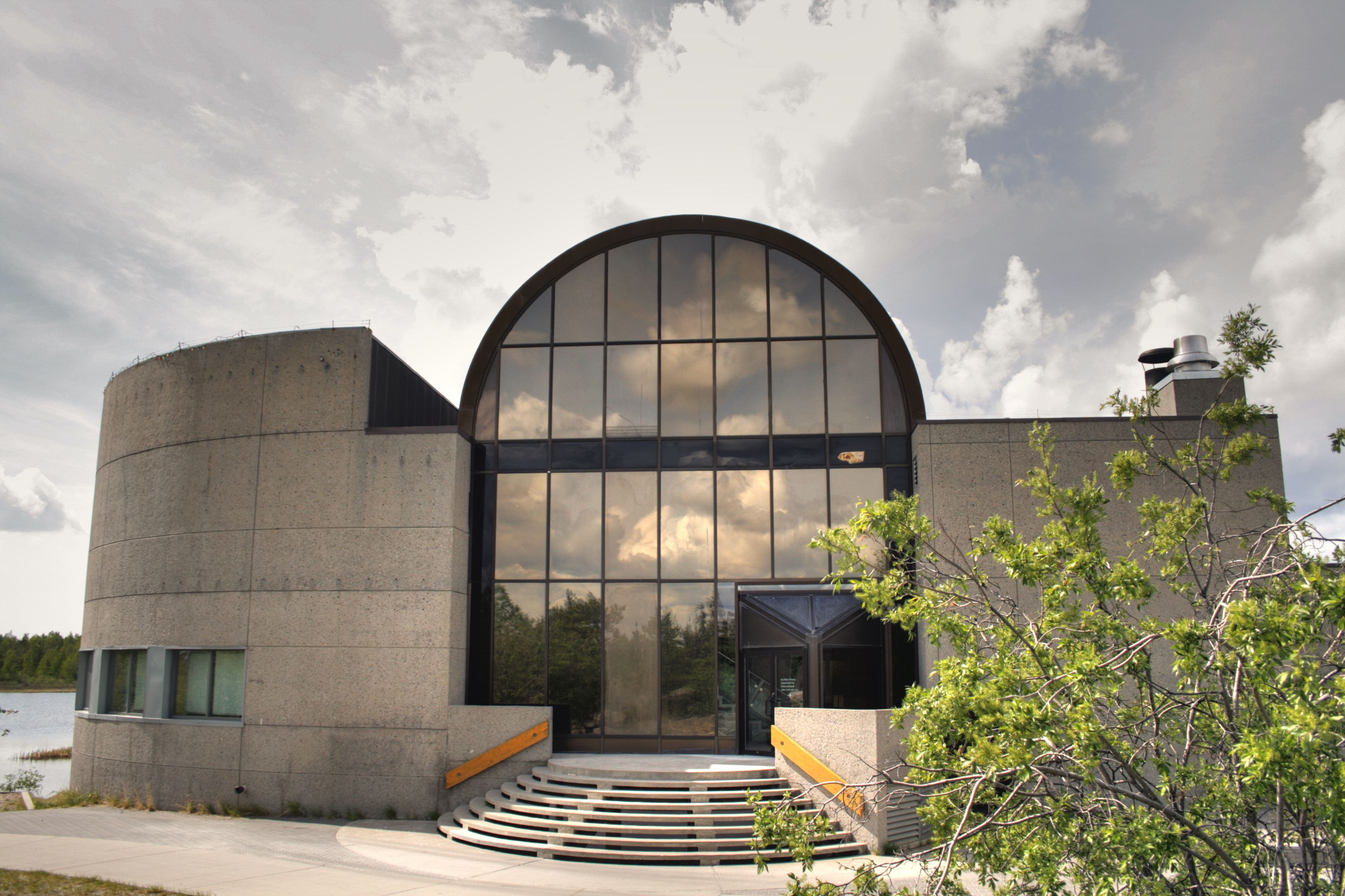 East face of the Prince of Wales Museum, Yellowknife, Northwest Territories, Canada.